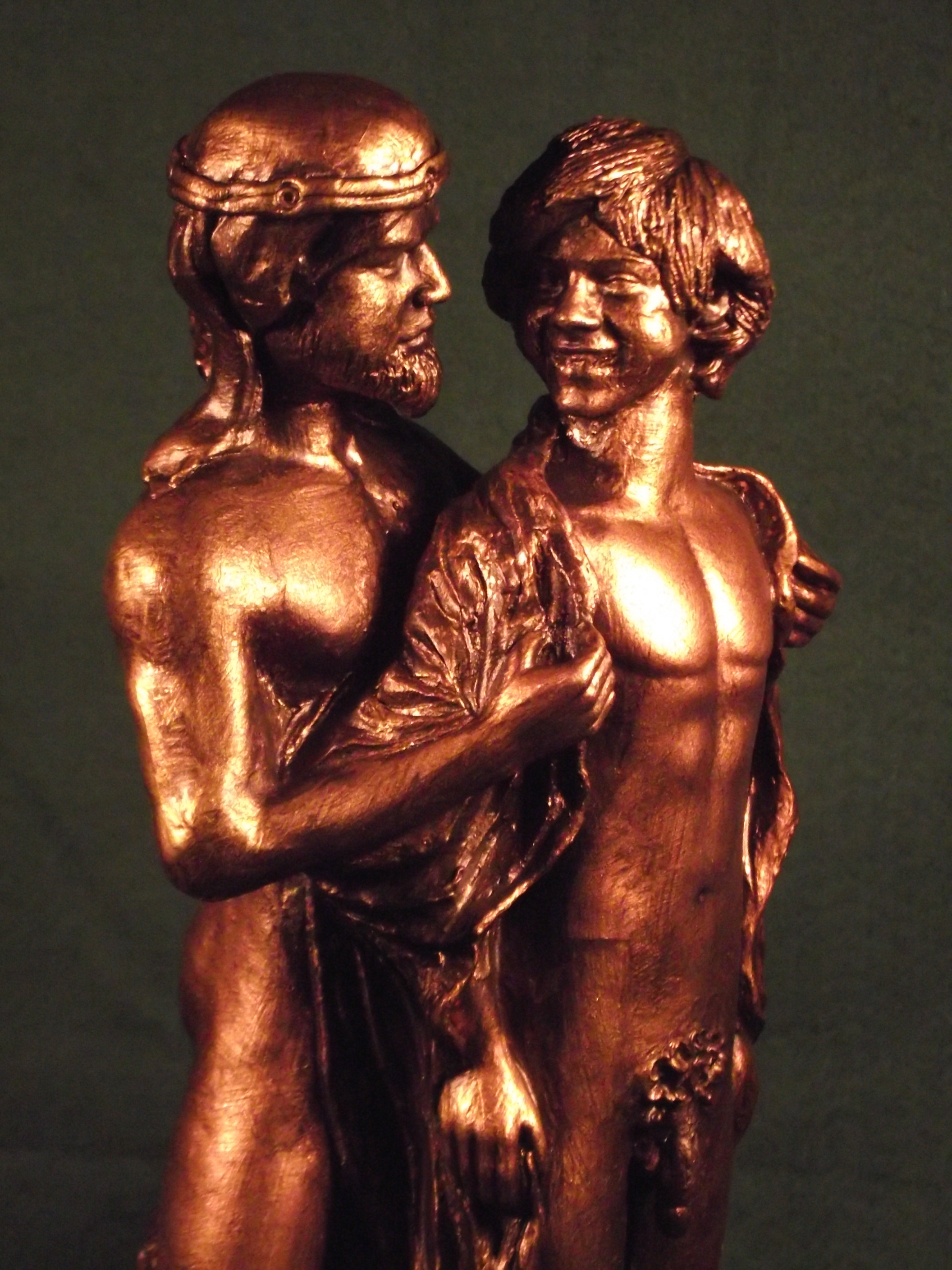 David and Jonathan. (Bible) Composite constructed sculpture of historical figure(s) reputed to have had a same sex relationships. Made of various materials & found objects with thin veneer film of bronze patina-ted paint giving appearance of solid bronze. A Metaphor of the appearance of solidity of LGBT rights & equality in law in the UK. Created by artist Malcolm Lidbury for 2016 LGBT History & Art Project Cornwall UK.